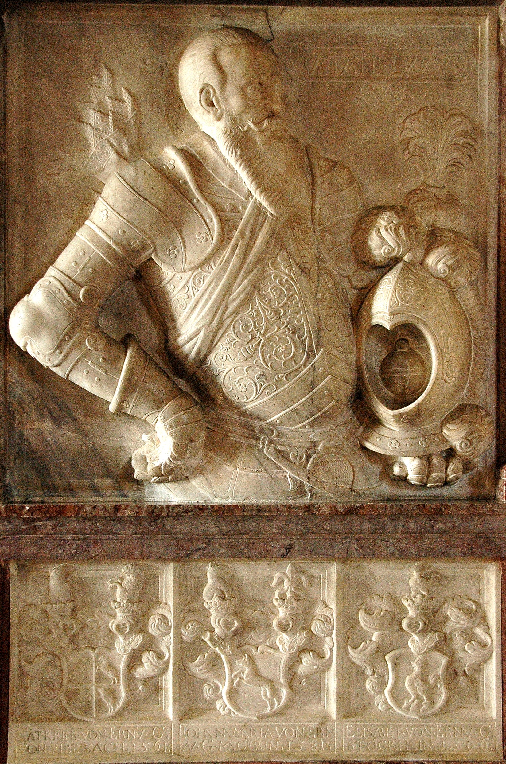 Epitaph for the noble Ulrich von Ernau II. and the relief of coats of arms for his three wives (below) at the porch of the parish church Holy Michael and Saint George, municipality Moosburg, district Klagenfurt Land, Carinthia, Austria, EU